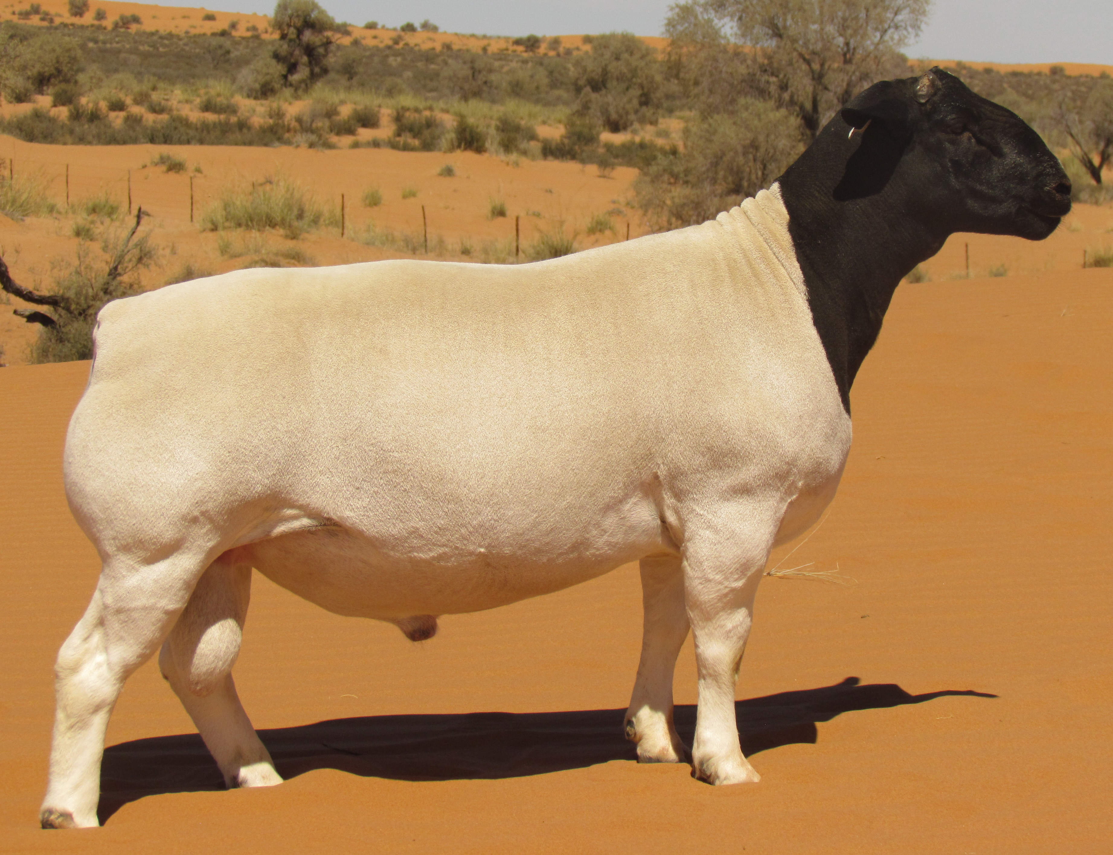 Dorper ram